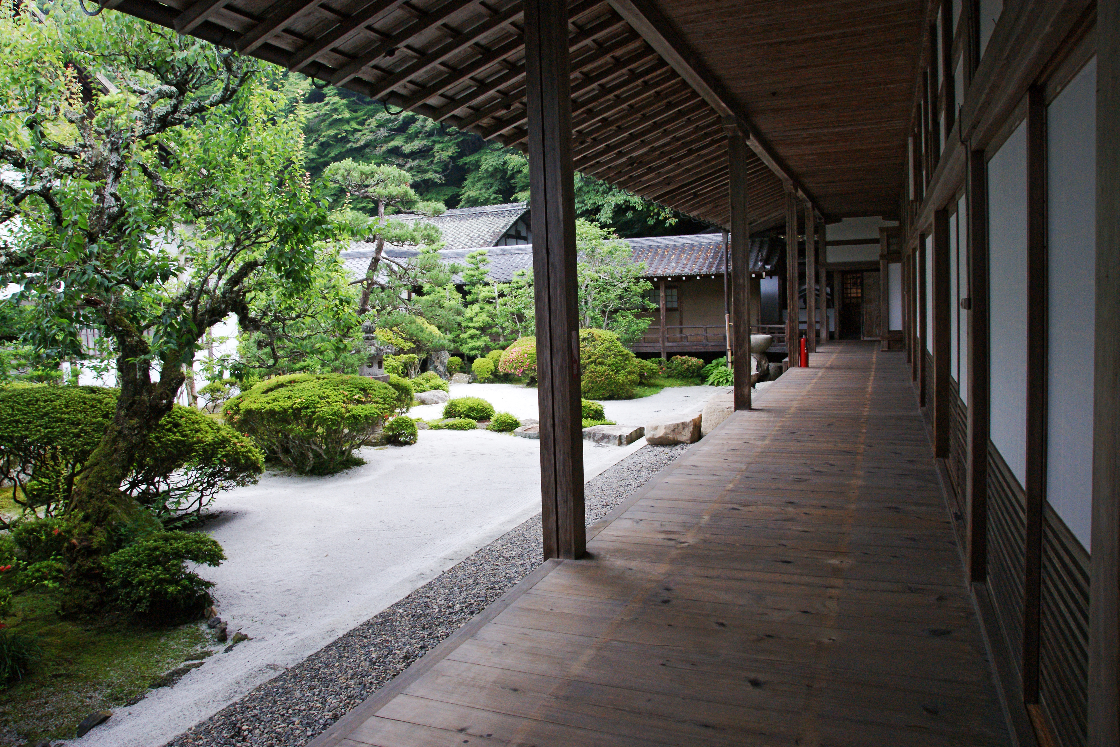 Saikyoji in Sakamoto, Otsu, Shiga prefecture, Japan